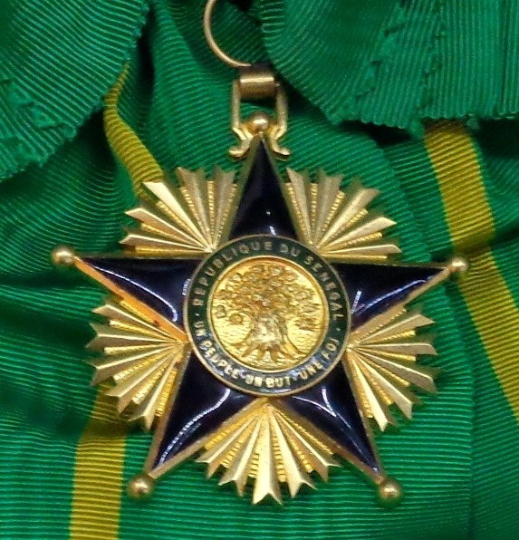 National Order of Merit, badge of Grand Cross. Senegal. The exhibition of the Tallinn Museum of Orders of Knighthood, Estonia.